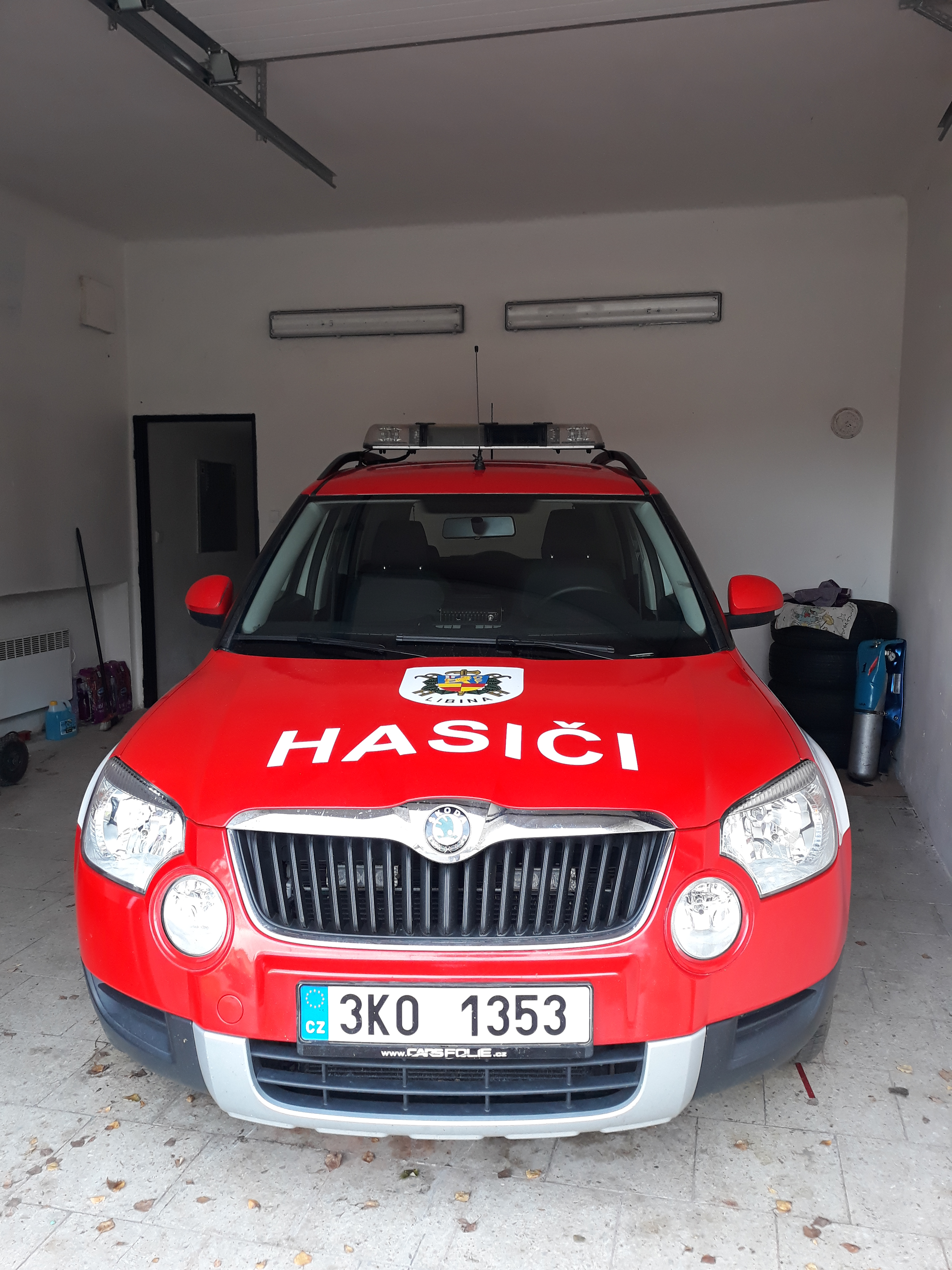 VEA Škoda Yeti SDH Dolní Libina